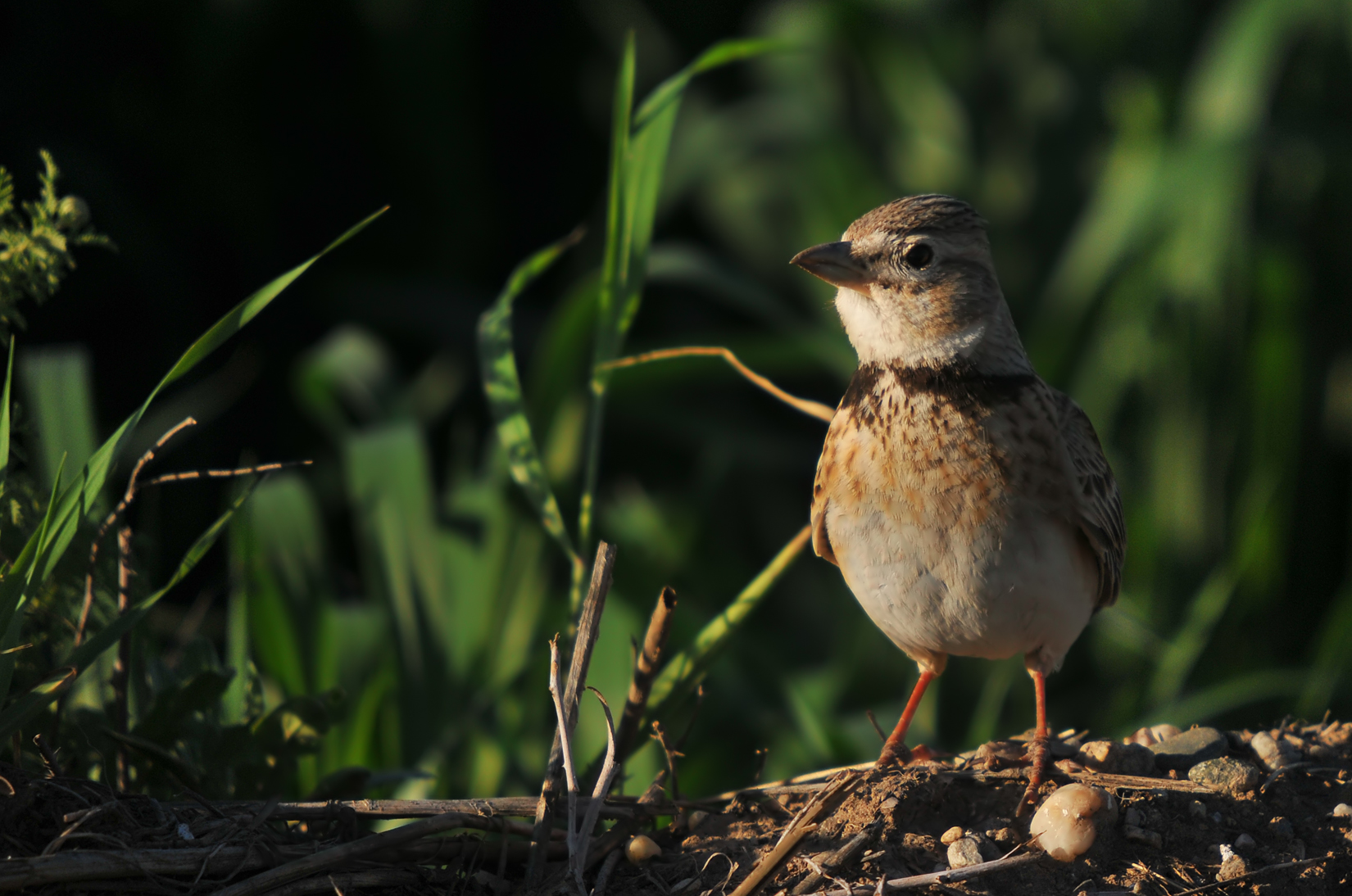 Calandra lark